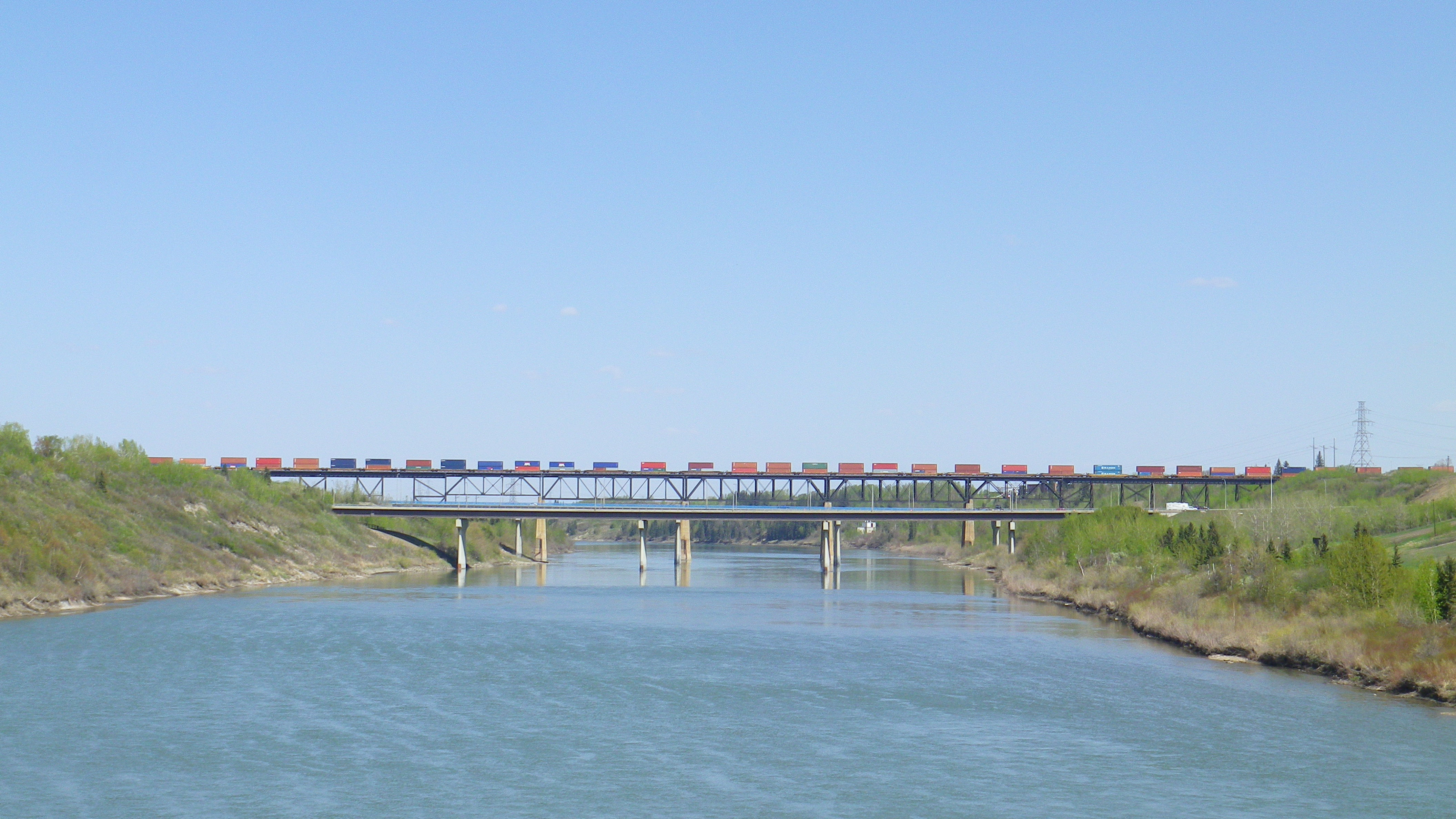 The Clover Bar Bridges over the North Saskatchewan River in Edmonton, Canada. On the picture taken facing nort-east one can see the railway bridge and the highway bridge (Highway 16).